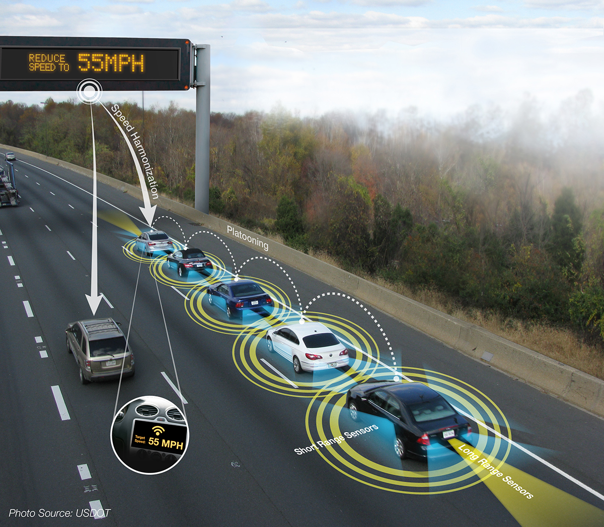 ITS image: Platooning uses cooperative adaptive cruise control in a series of vehicles to improve traffic flow stability and safely allow short headways, to obtain mobility and fuel efficiency benefits.